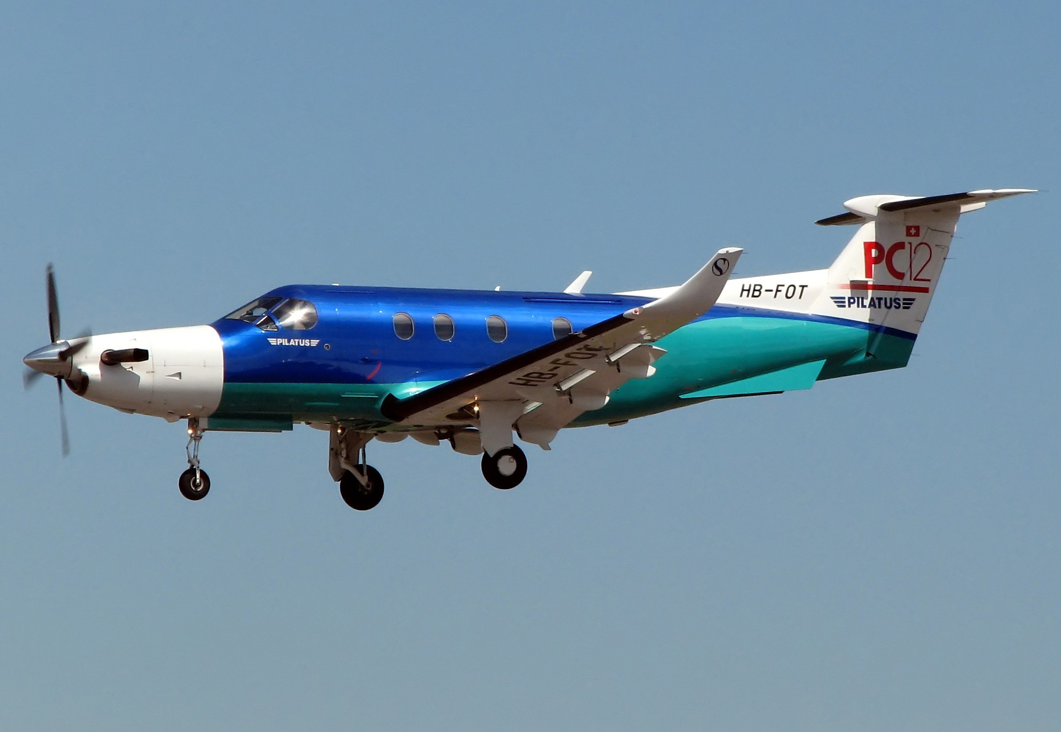 Pilatus PC12 (HB-FOT) of the Swiss Air Force landing at the Royal International Air Tattoo, Fairford, Gloucestershire, England. Photographed by Adrian Pingstone on July 17th 2006 and released to the public domain.